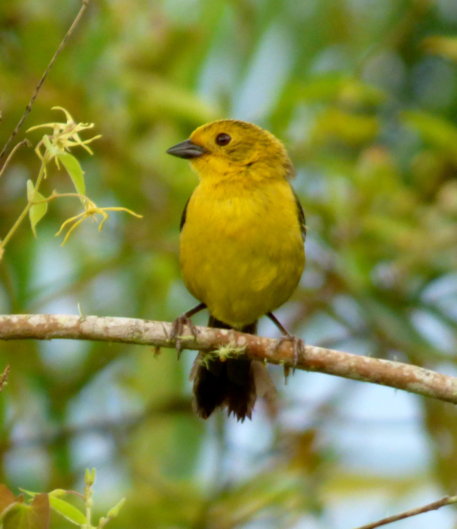 Yellow-headed Brush Finch (Atlapetes flaviceps)